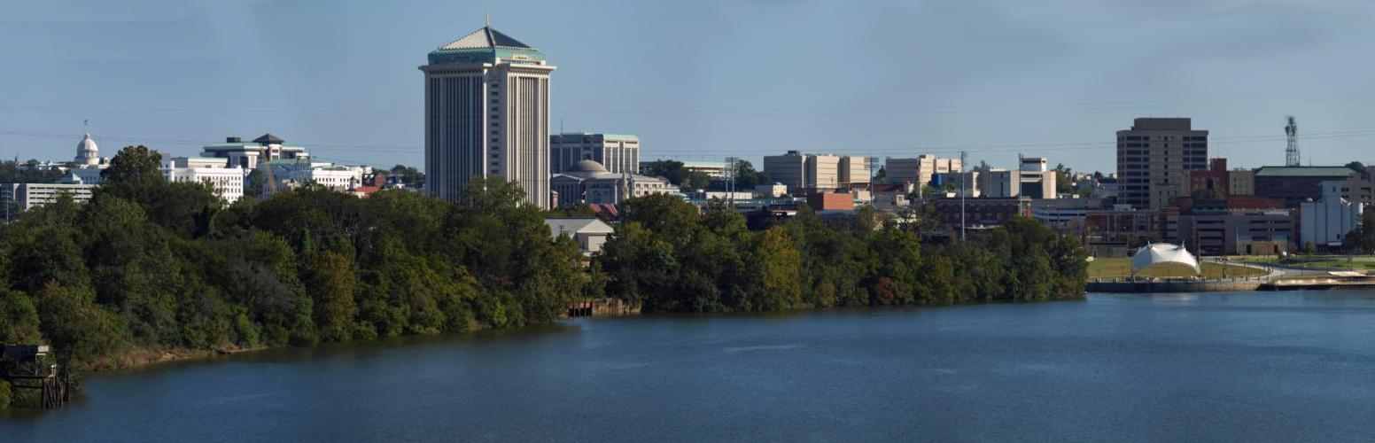 Panorama of downtown Montgomery, Alabama